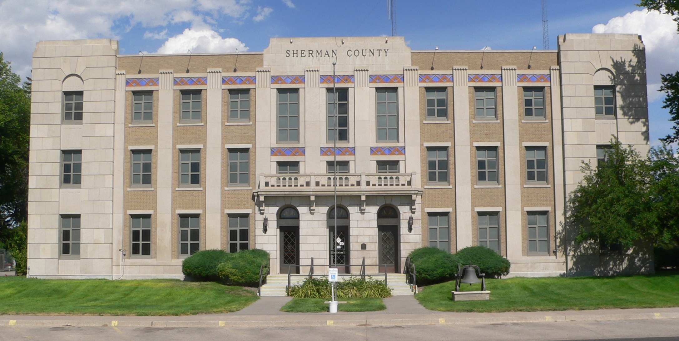 Sherman County courthouse in Goodland, Kansas; seen from the west, across Broadway.